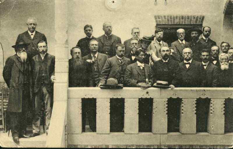 In August 1904, leaders of the socialist parties from around the world gathered in Amsterdam for the Sixth Congress of the Socialist International.